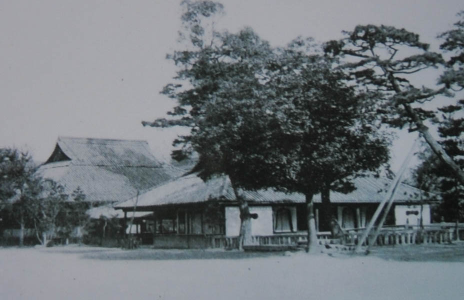 Okayama-han Hangaku school building of past days